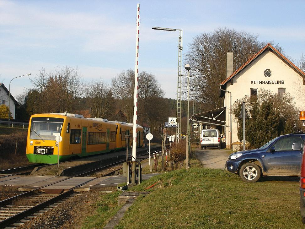 Oberpfalzbahn's VT 35 Stadler Regio-Shuttle RS1 in Kothmaissling train station (Germany)